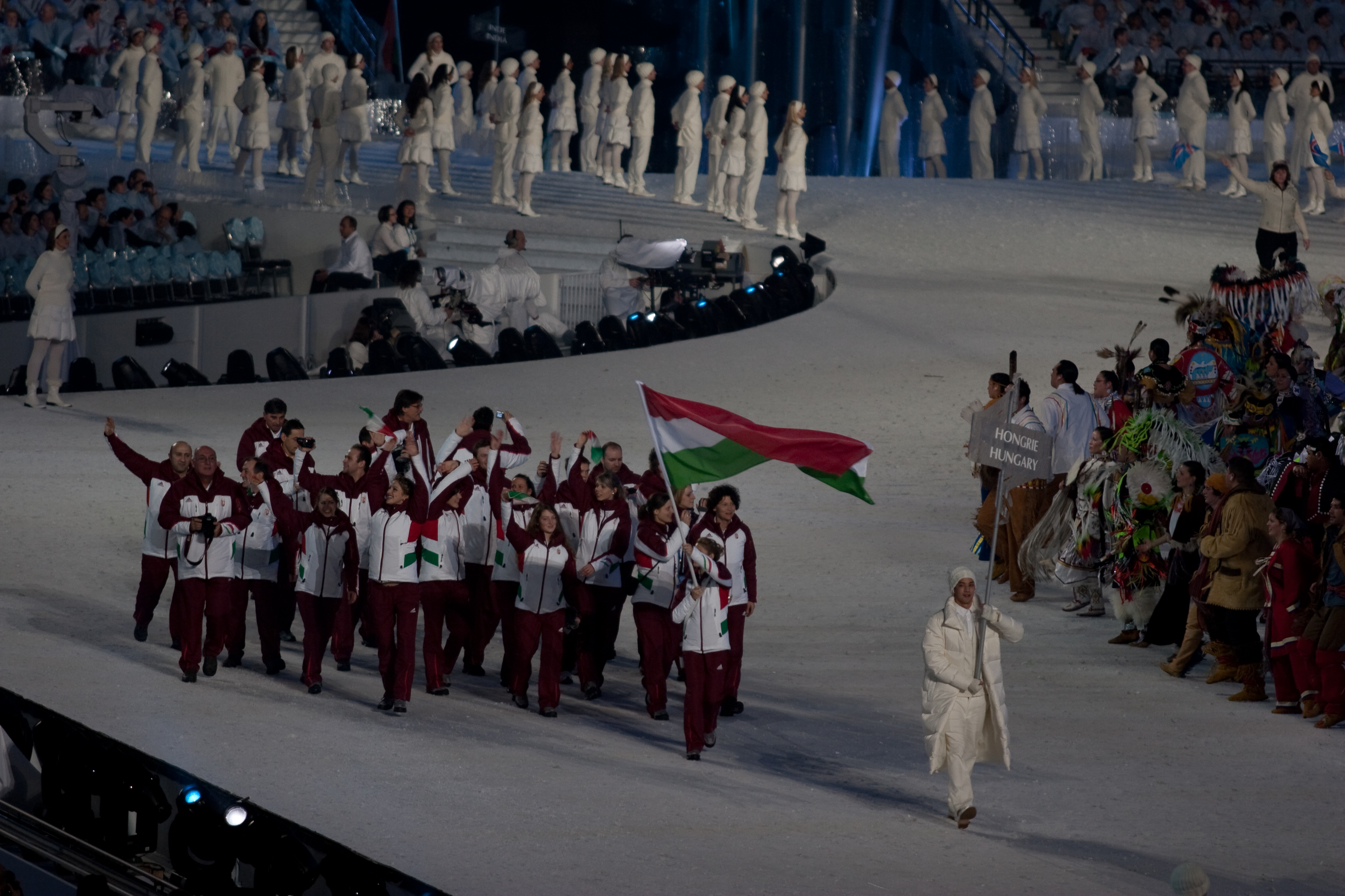 The athletes from Hungary entering the stadium at the opening ceremonies of the 2010 Winter Olympics